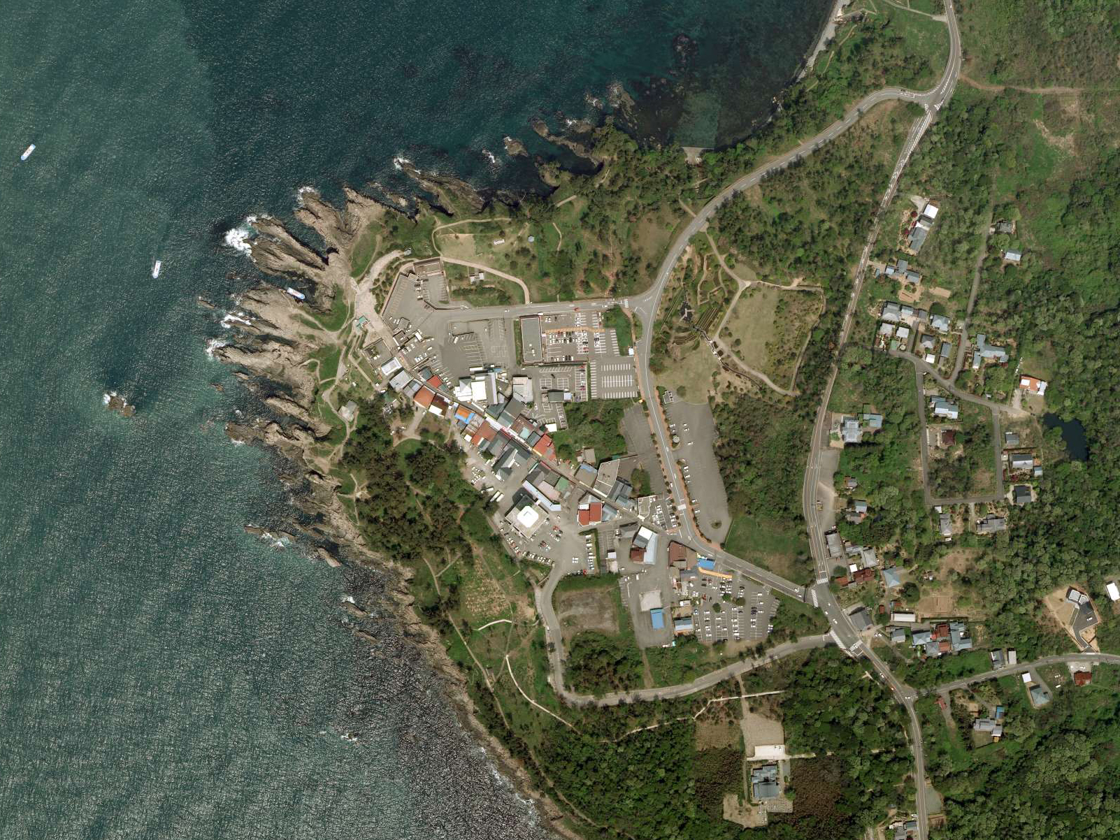 Aerial view of Tojinbo in Sakai, Fukui Prefecture, Japan. This is a retouched picture, which means that it has been digitally altered from its original version. Modifications: Cropping & Color adjustment. Modifications made by Batholith.